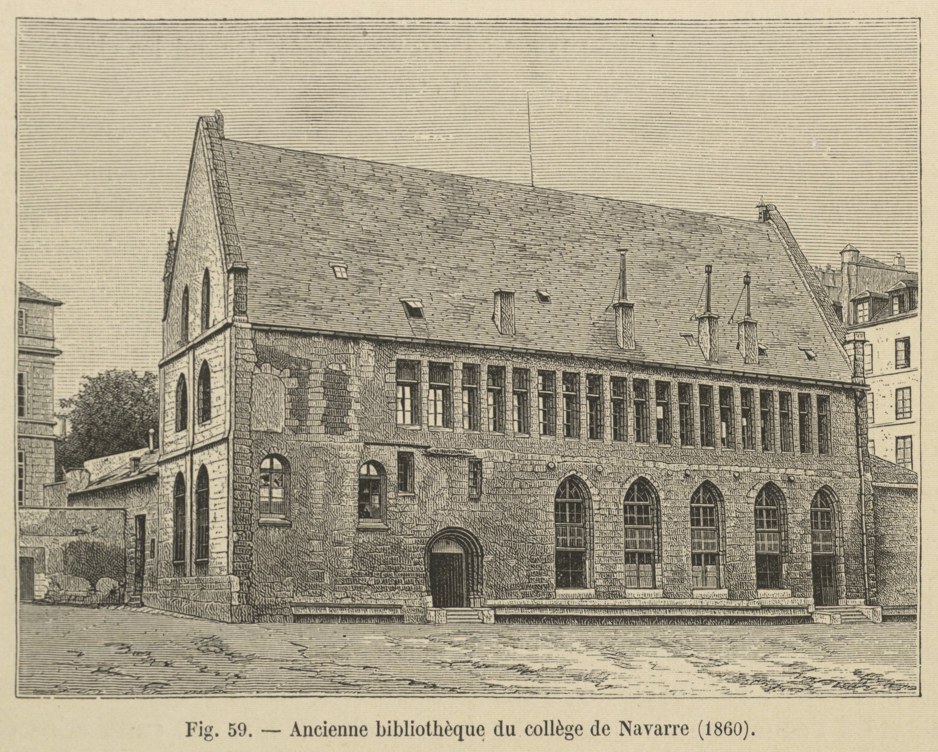 The collège de Navarre was founded in 1304 by the princess of Navarre and was known to be one of Paris's most distinguished schools throughout the centuries. It was closed following the Revolution and reopened in 1805, when it would be used to house the École polytechnique for the years to come.